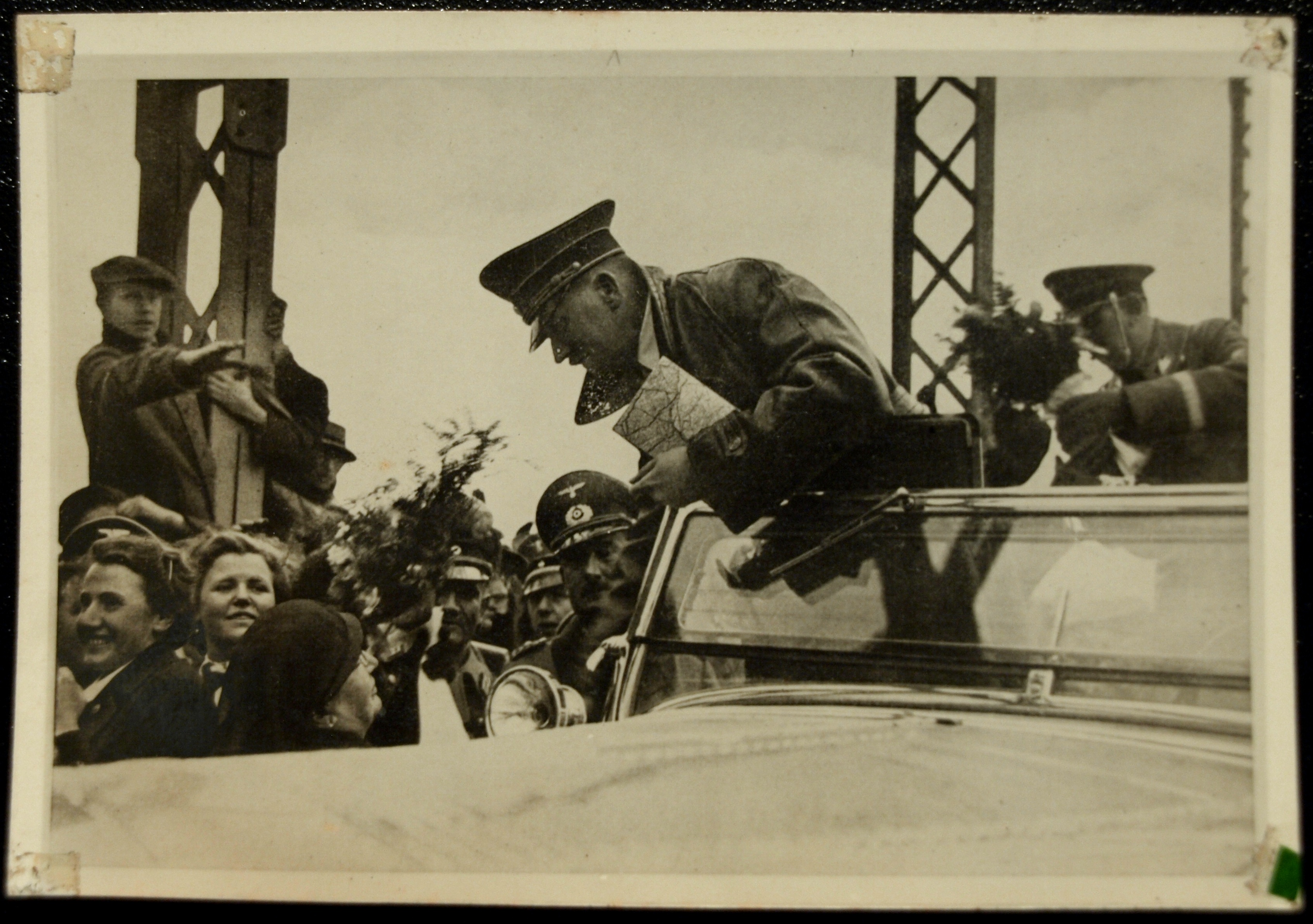 Believed to be a previously unpublished photo of Hitler crossing the border into Austria in March, 1938. From the private collection of H. Blair Howell.